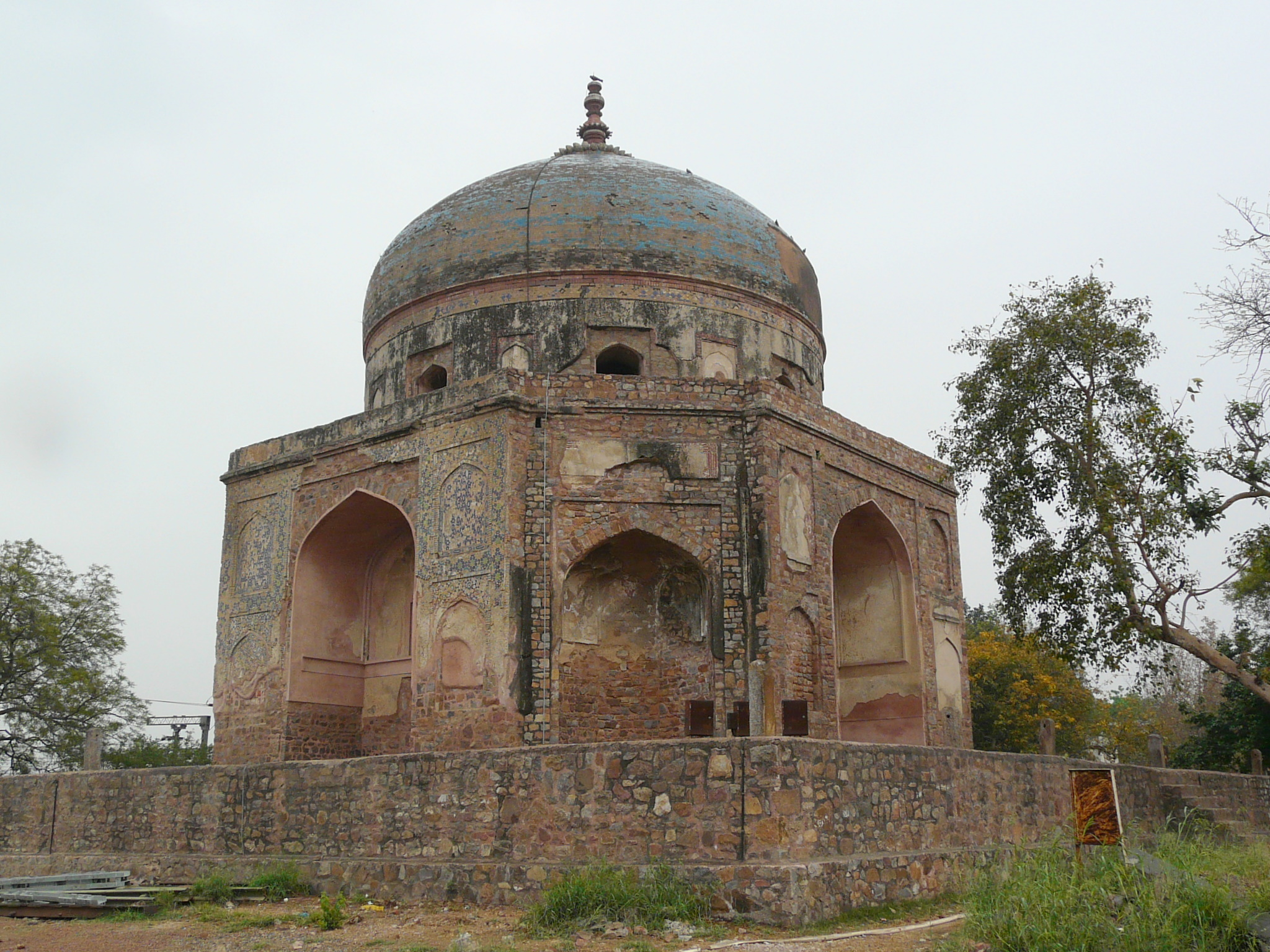 Nila Gumbad or Blue Dome, adjacent to the Humayun's tomb complex, Delhi. Persian influence more pronounced that other structure within the complex.